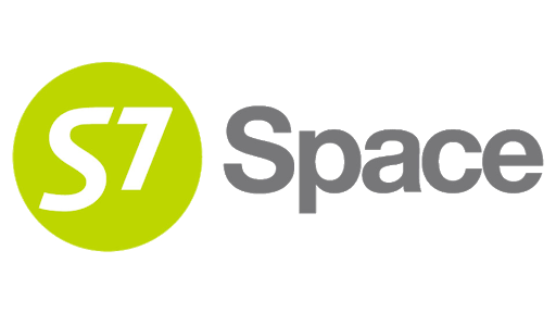 S7 Space logo